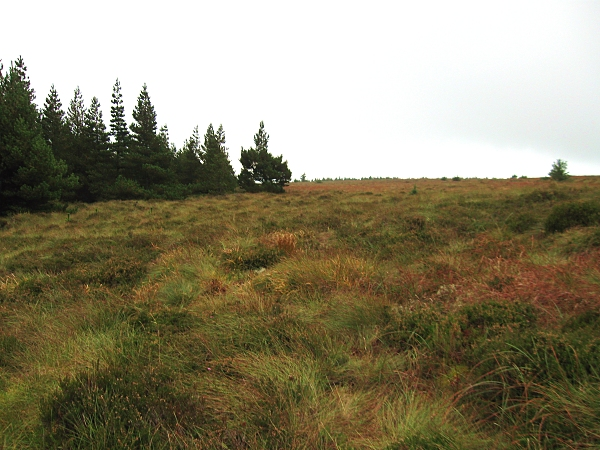 Forest Corner Rough heathland and corner of forest in Slieve Bloom Mountains.